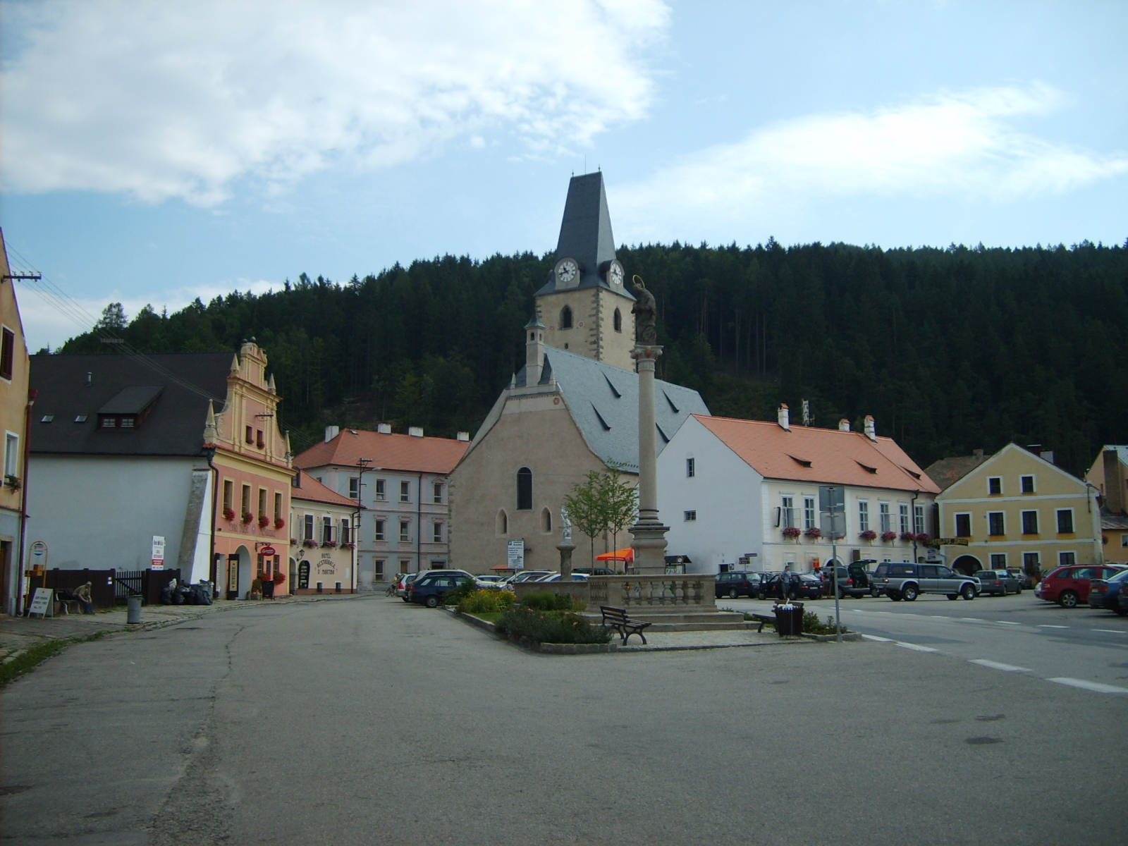 Square in Rožmberk nad Vltavou